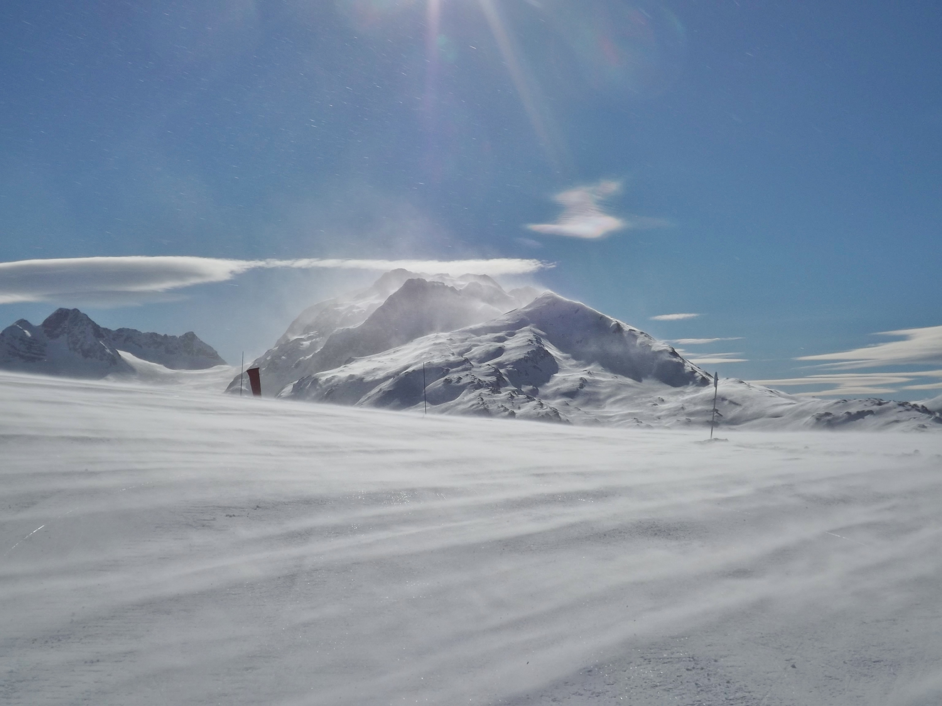 Sight of the top of Saint-Sorlin-d'Arves ski resort during a strong windy day, in Savoie, France. At the background can be seen the pic de l'Étendard peak (3,464 meters high).